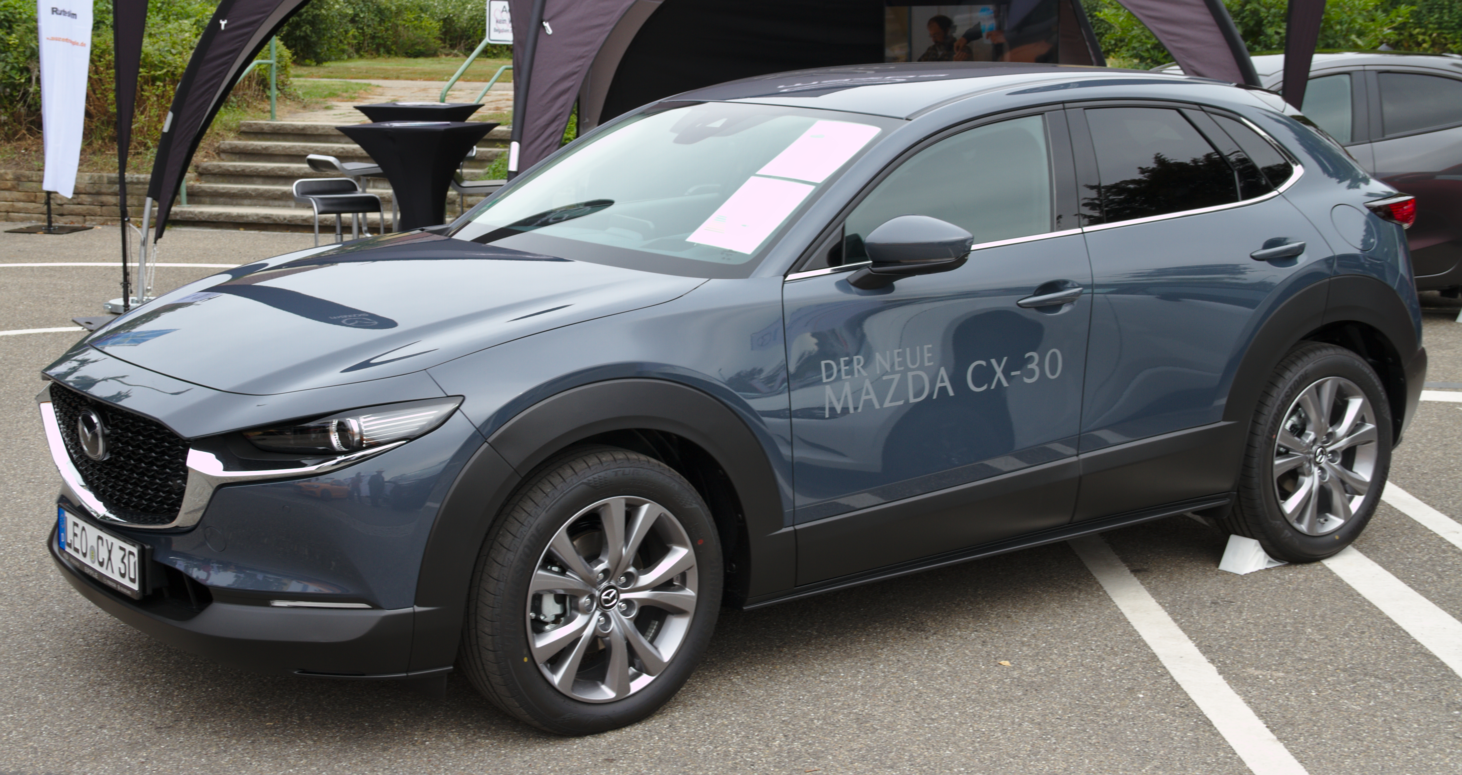 Mazda_CX-30 at Leonberger Autoschau 2019